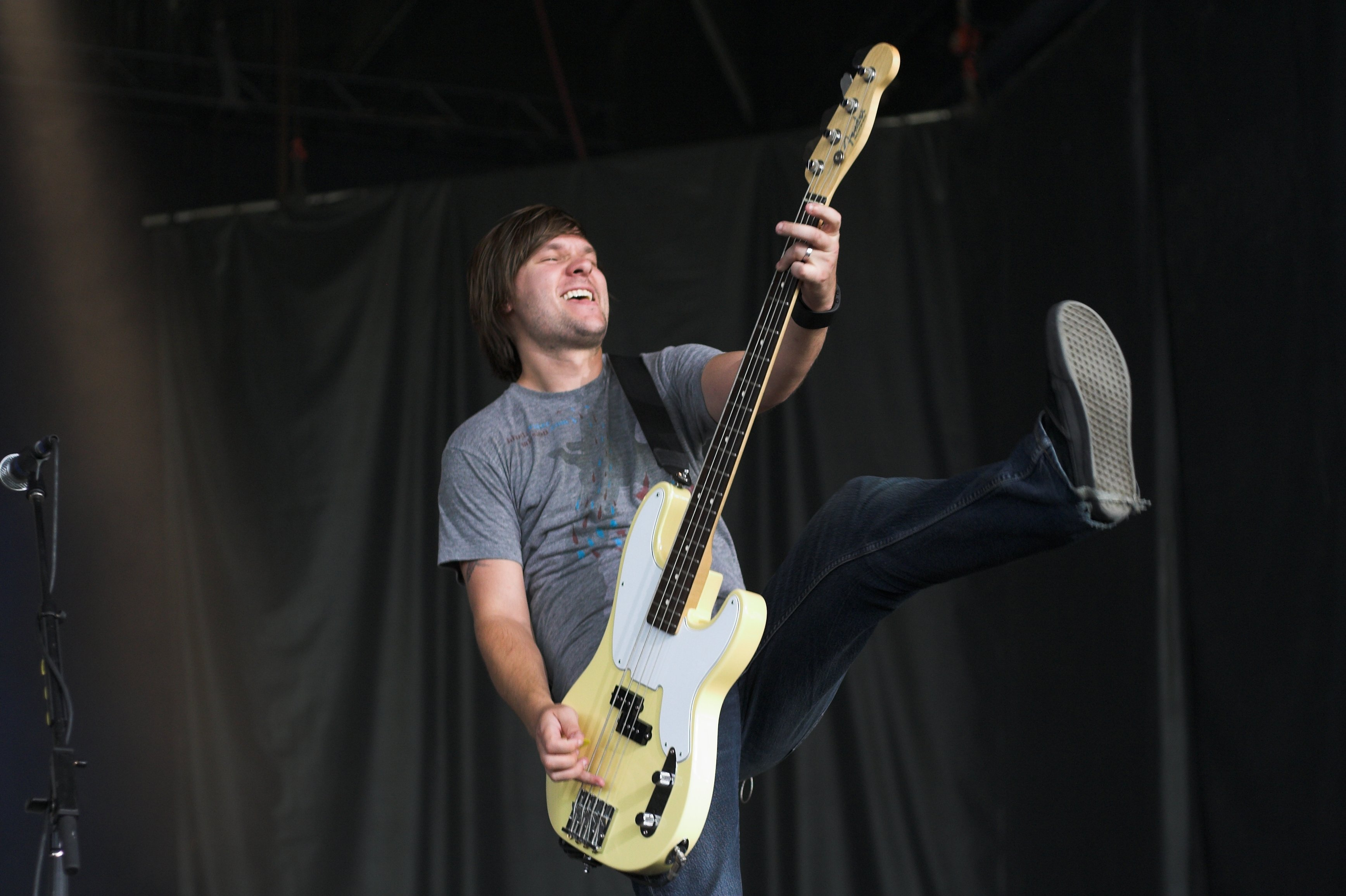 John Warne of Relient K performing at Wonder Jam 2009 at Canada's Wonderland in Vaughan, Ontario, Canada.